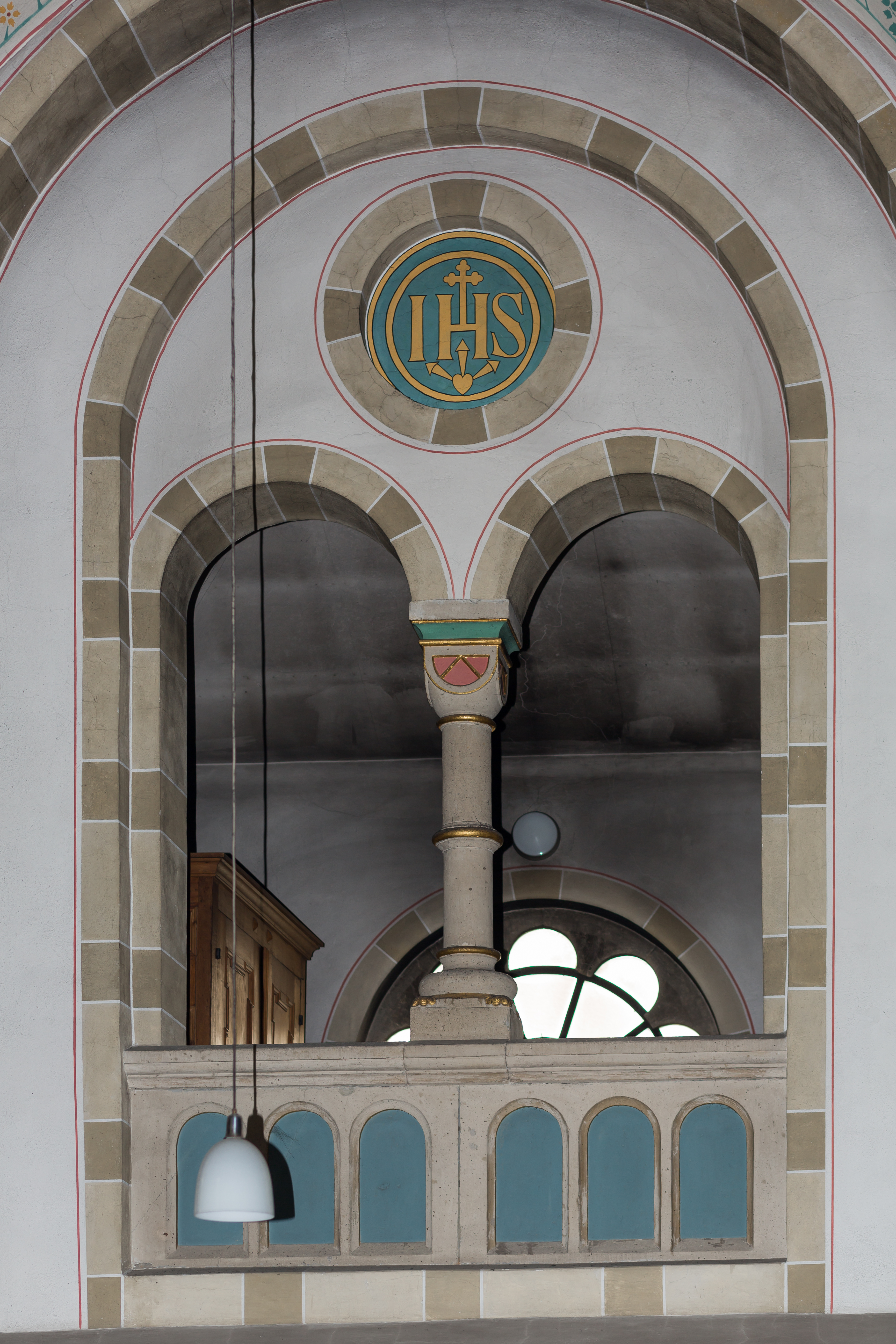 Rösrath, Listed monument number 42, Hauptstrasse 62: Pfarrkirche St. Nikolaus von Tolentino - Gallery over the sacristy; erected during refurbishing 1903-1908 This is a photograph of an architectural monument.